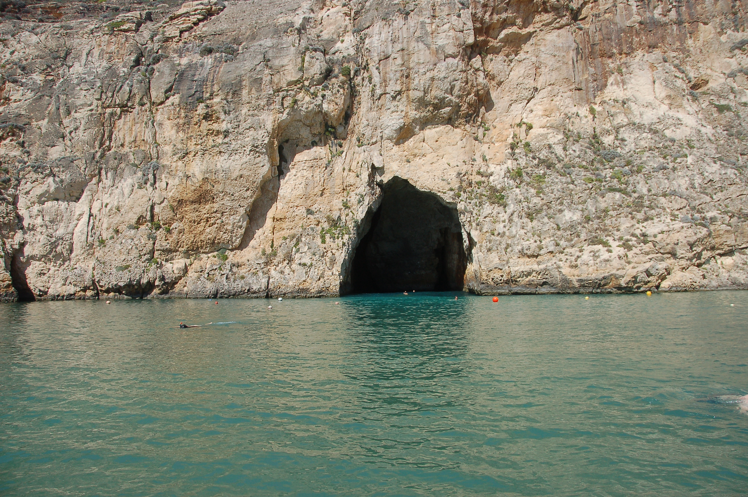 Inland Sea on Island Gozo with connection to the Sea